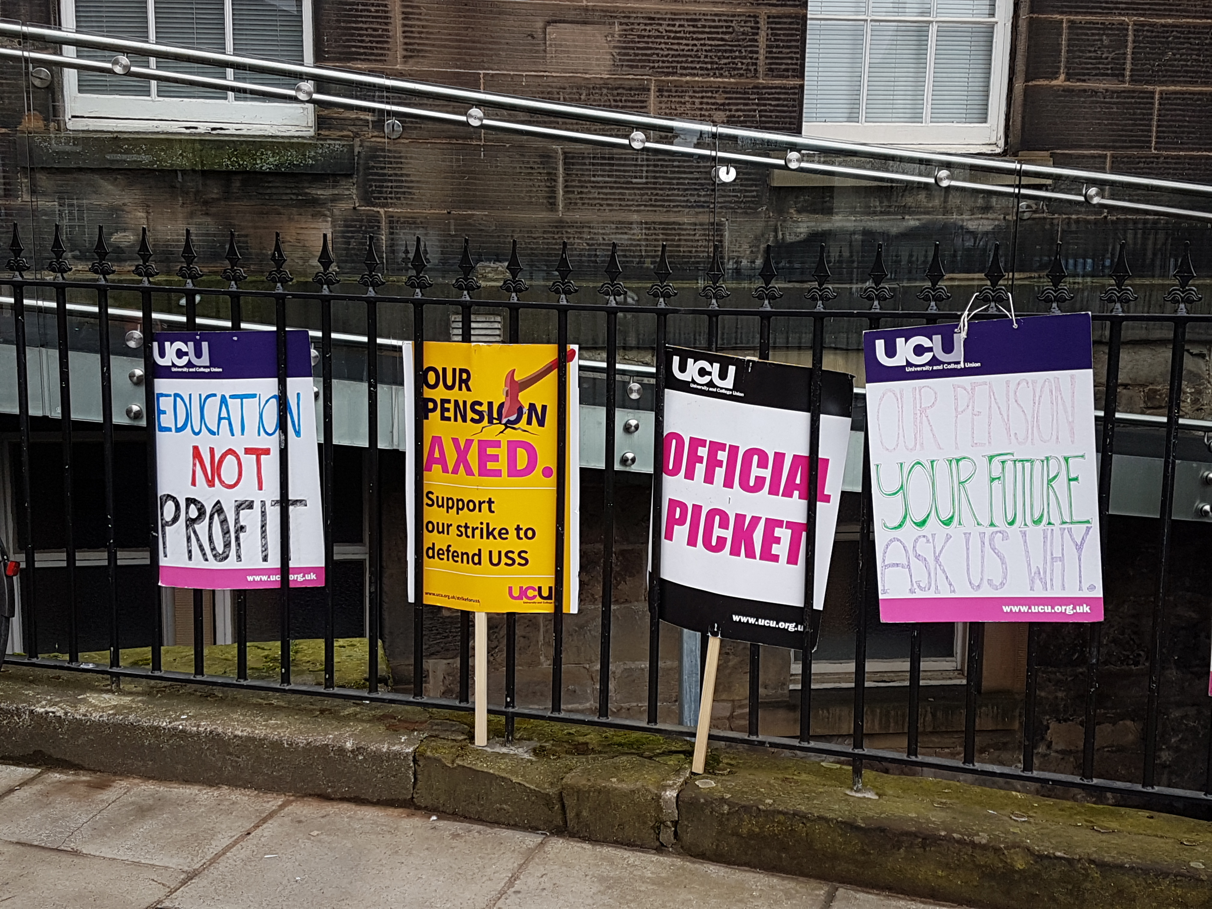 2018 UK higher education placards at the University of Edinburgh.